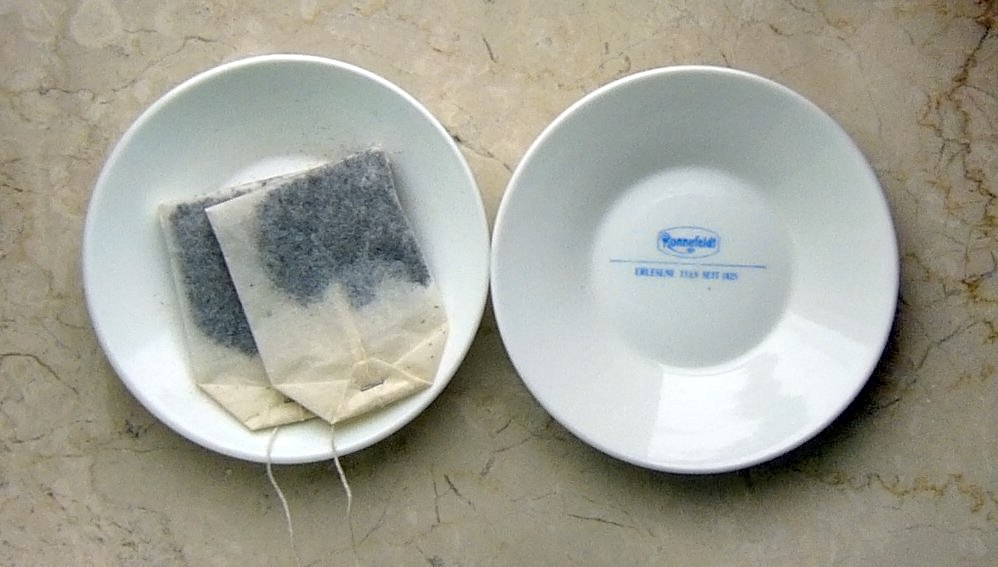 Small plates for used tea bags.